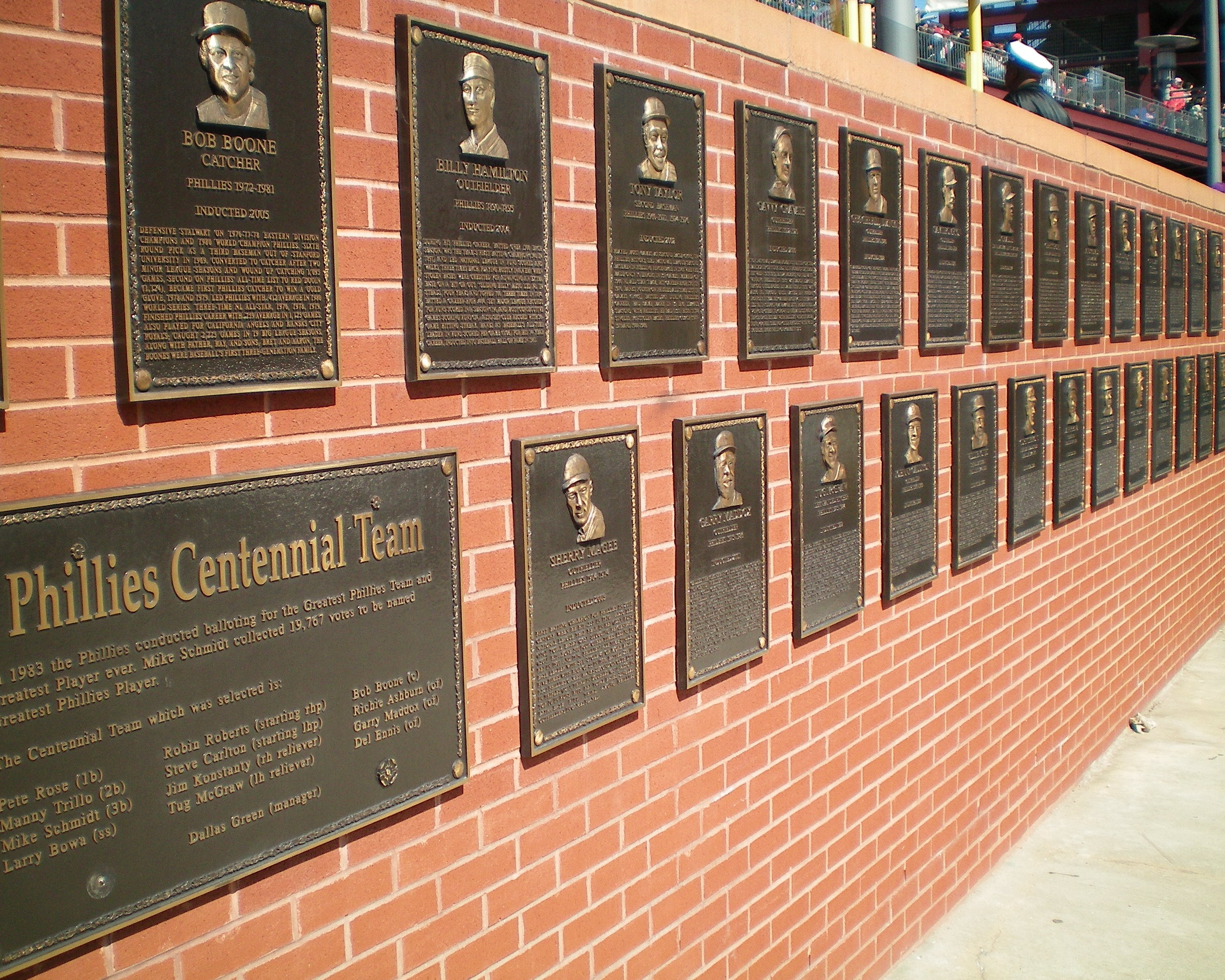 This is the Phillies Wall of Fame at Citizens Bank Park, Philadelphia, PA.